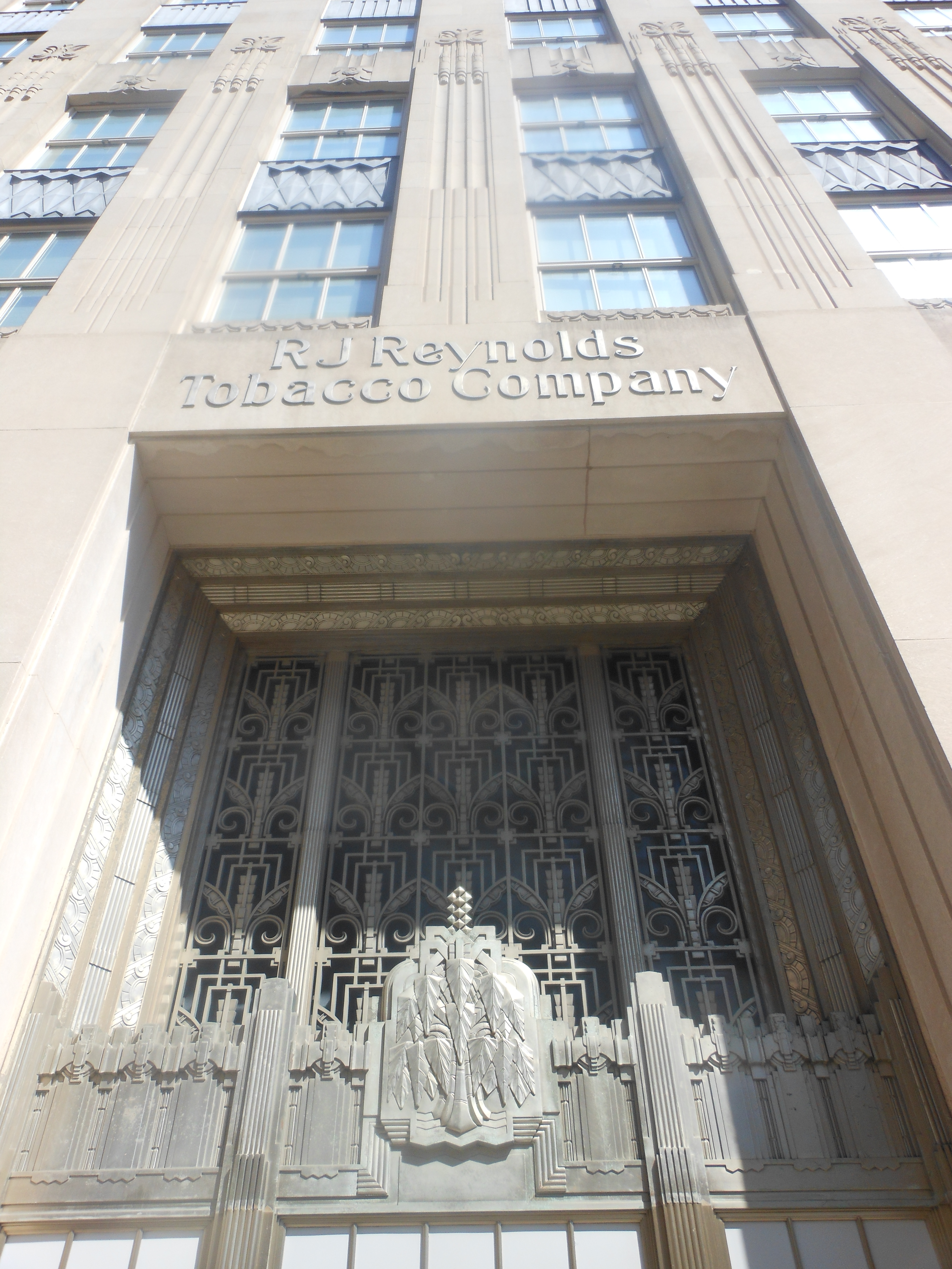 Reynolds Building Entrance in Winston-Salem, NC